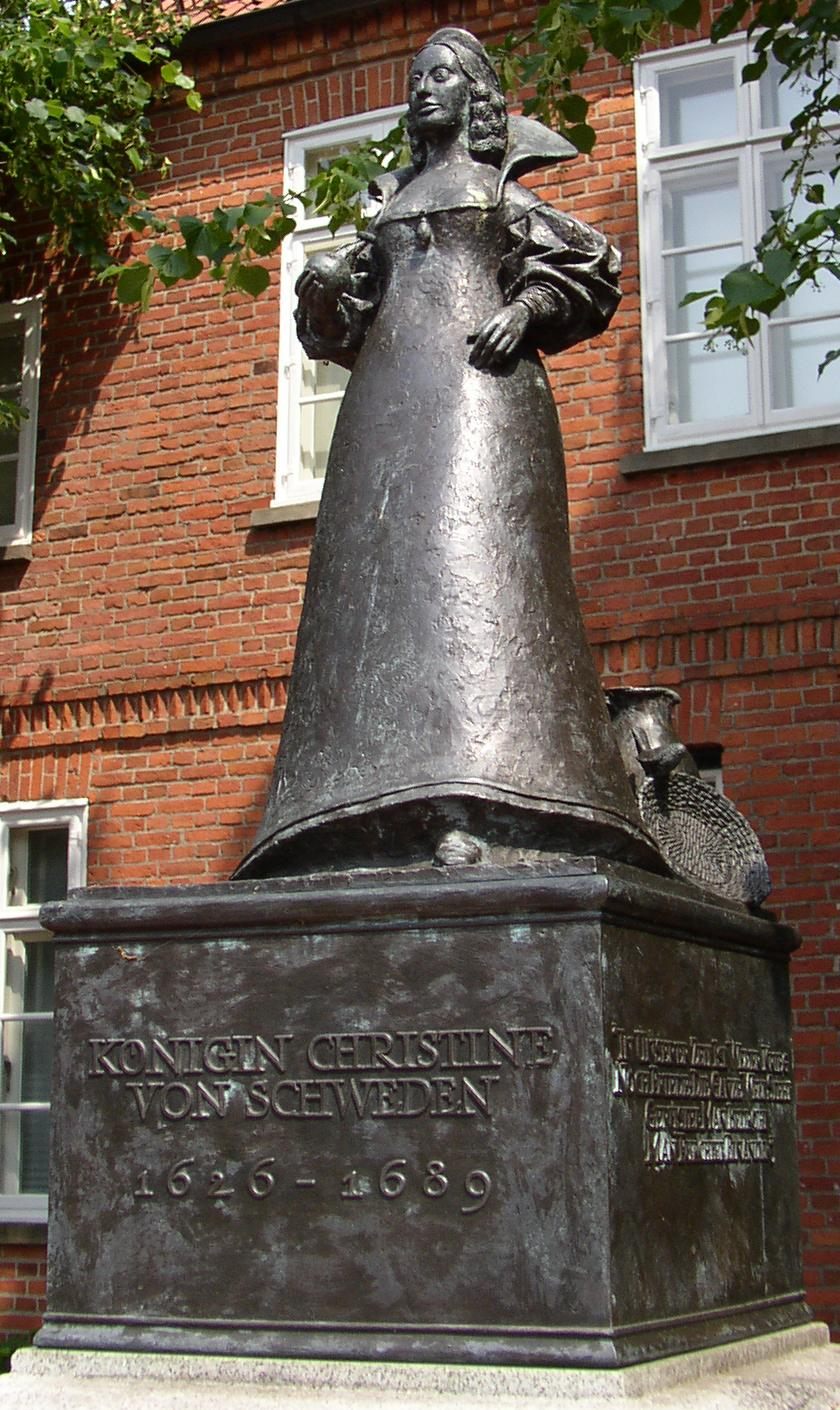 Statue of Christina of Sweden (by Klaus Luckey) in Zeven in Lower Saxony, Germany